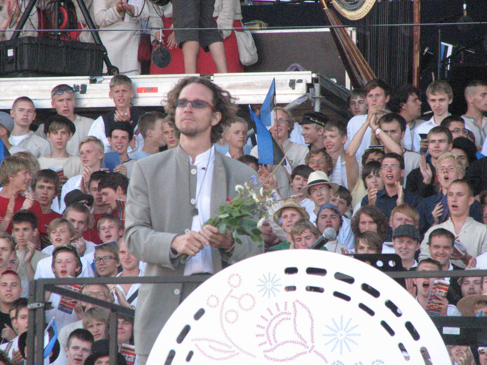 Siim Aimla after conducting a song in XI noorte laulu- ja tantsupidu